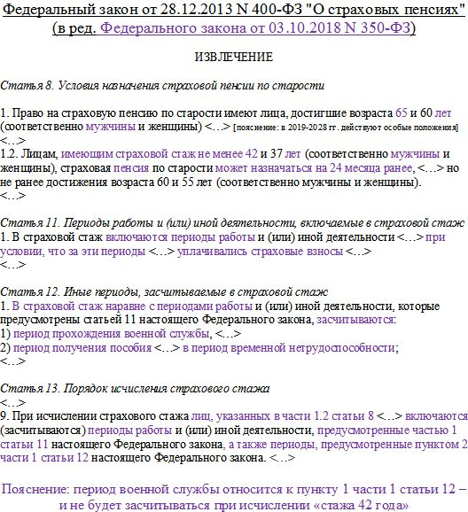 Statements in the Russian pension law (2018) related to inclusion of the call-up time in the total service length